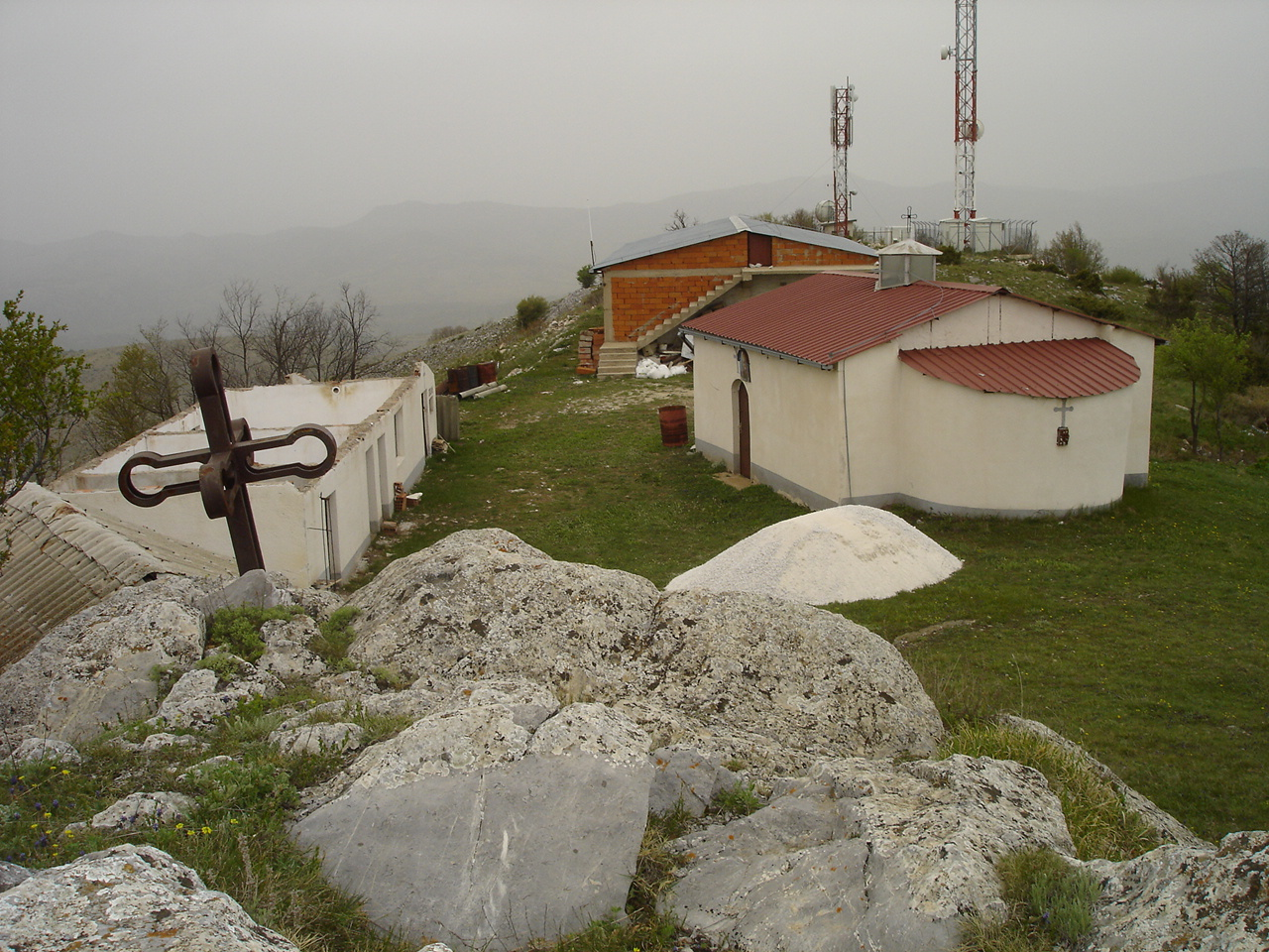 Monastery St. Panteleymon in Mariovo, Macedonia